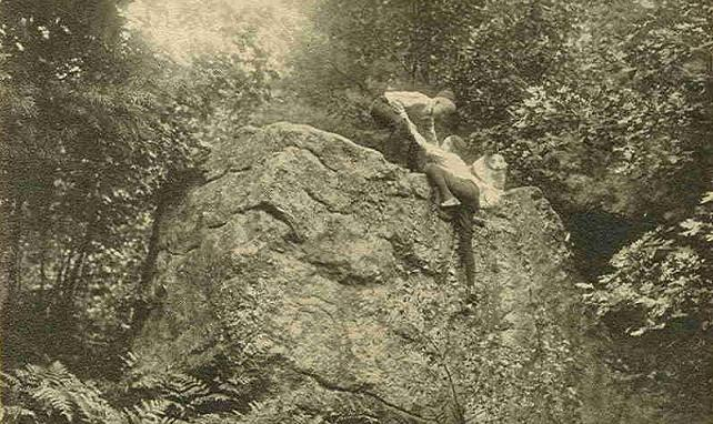 Wolf Rock, Mason, New Hampshire. On this rock, in the early days, a minister was besieged by wolves.